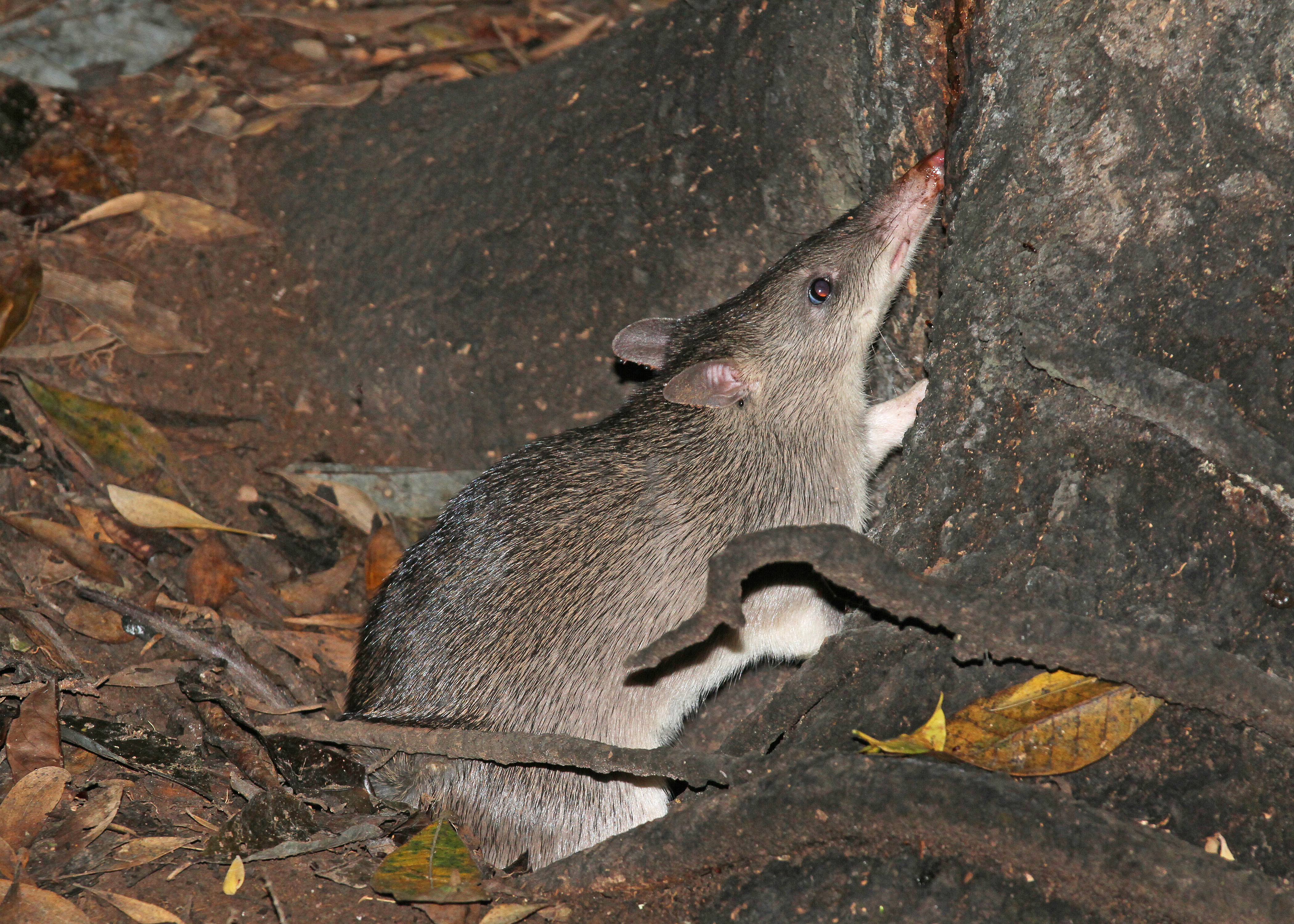 photo of Long-nosed Bandicoot